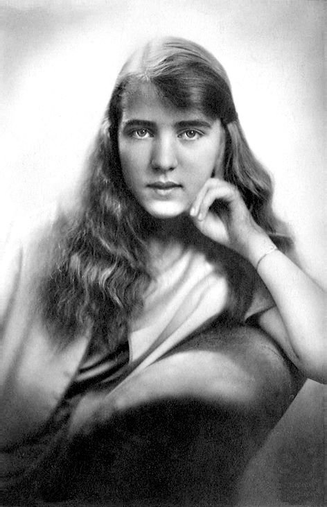 Ingrid of Sweden (1910–2000), Swedish princess (and later queen of Denmark) at the age of 14